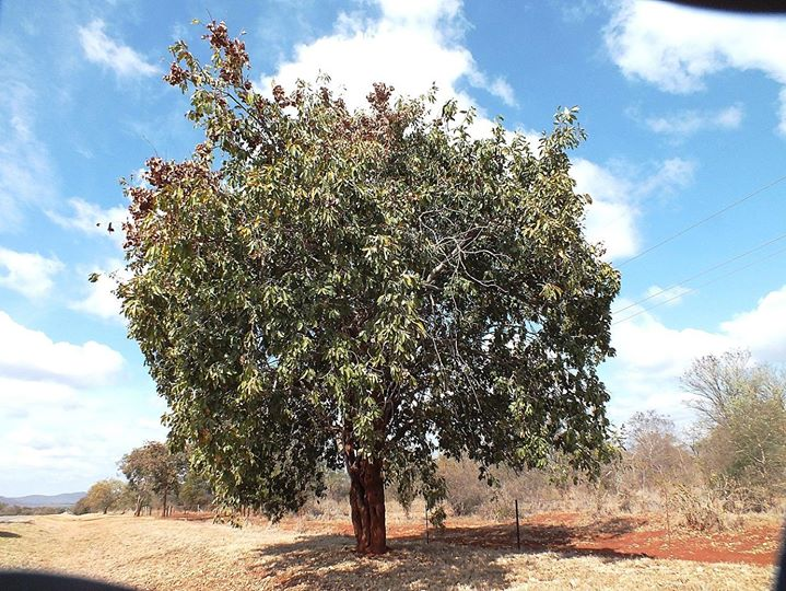 Combretum collinum Fresen. - Mpumalanga Province, South Africa